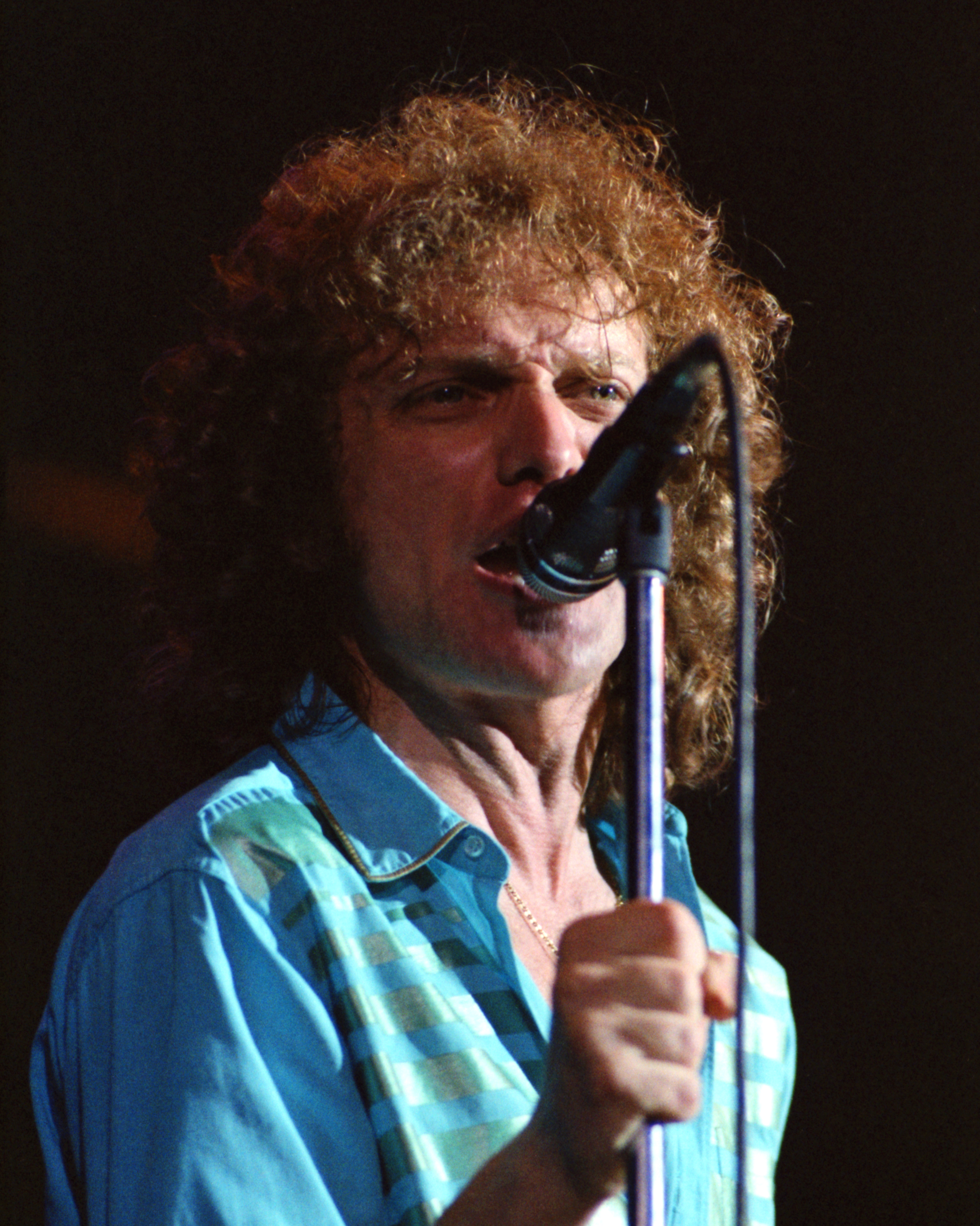 Lou Gramm, performing with Foreigner in Portland, Maine, October 23rd, 1979 at the Cumberland County Civic Center. Photo Credit: David Spencer